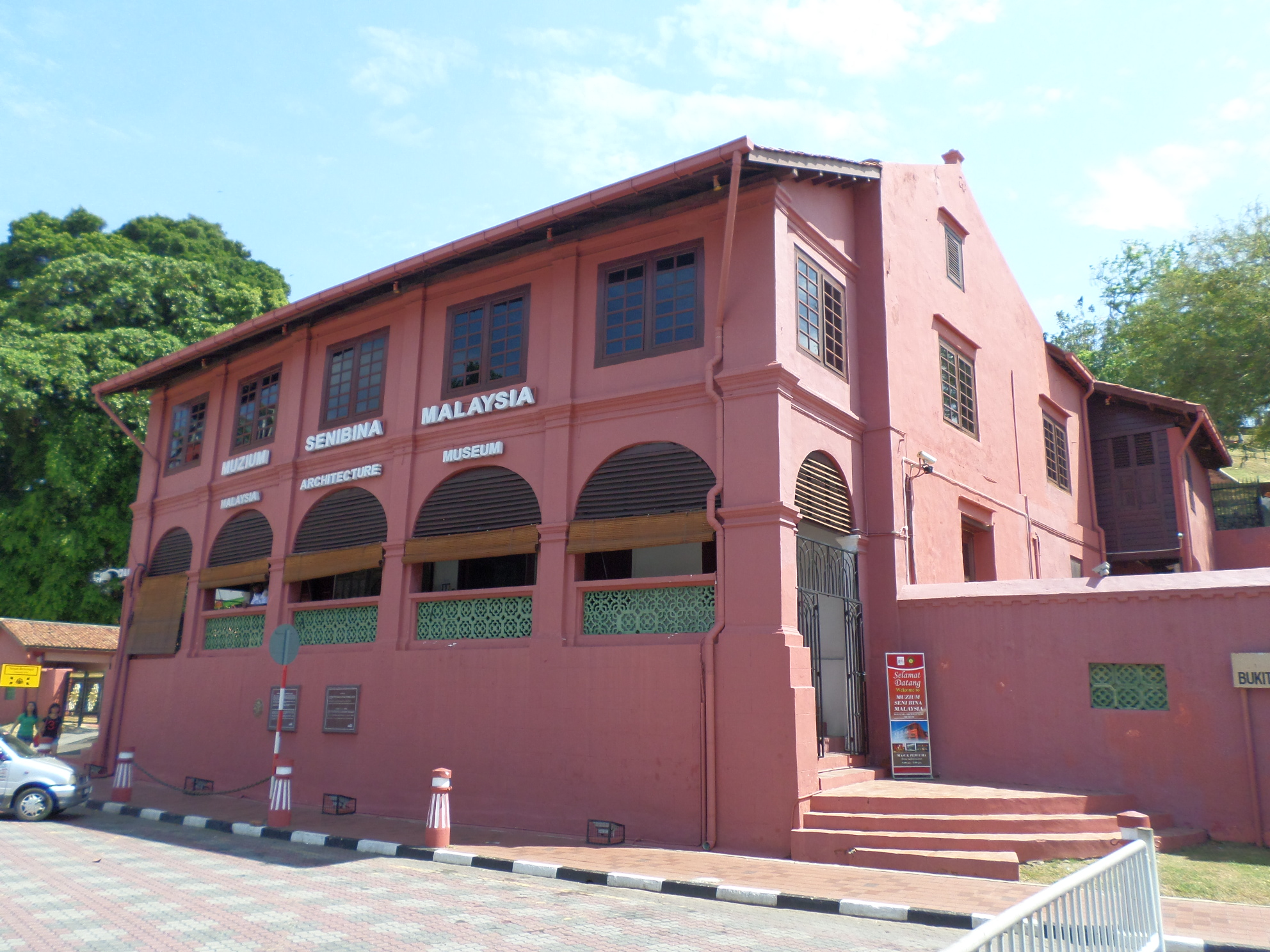 Malaysia Architecture Museum, Melaka City, Central Melaka, Melaka, MalaysiaBahasa Melayu: Muzium Seni Bina Malaysia, Bandaraya Melaka, Melaka Tengah, Melaka, Malaysia